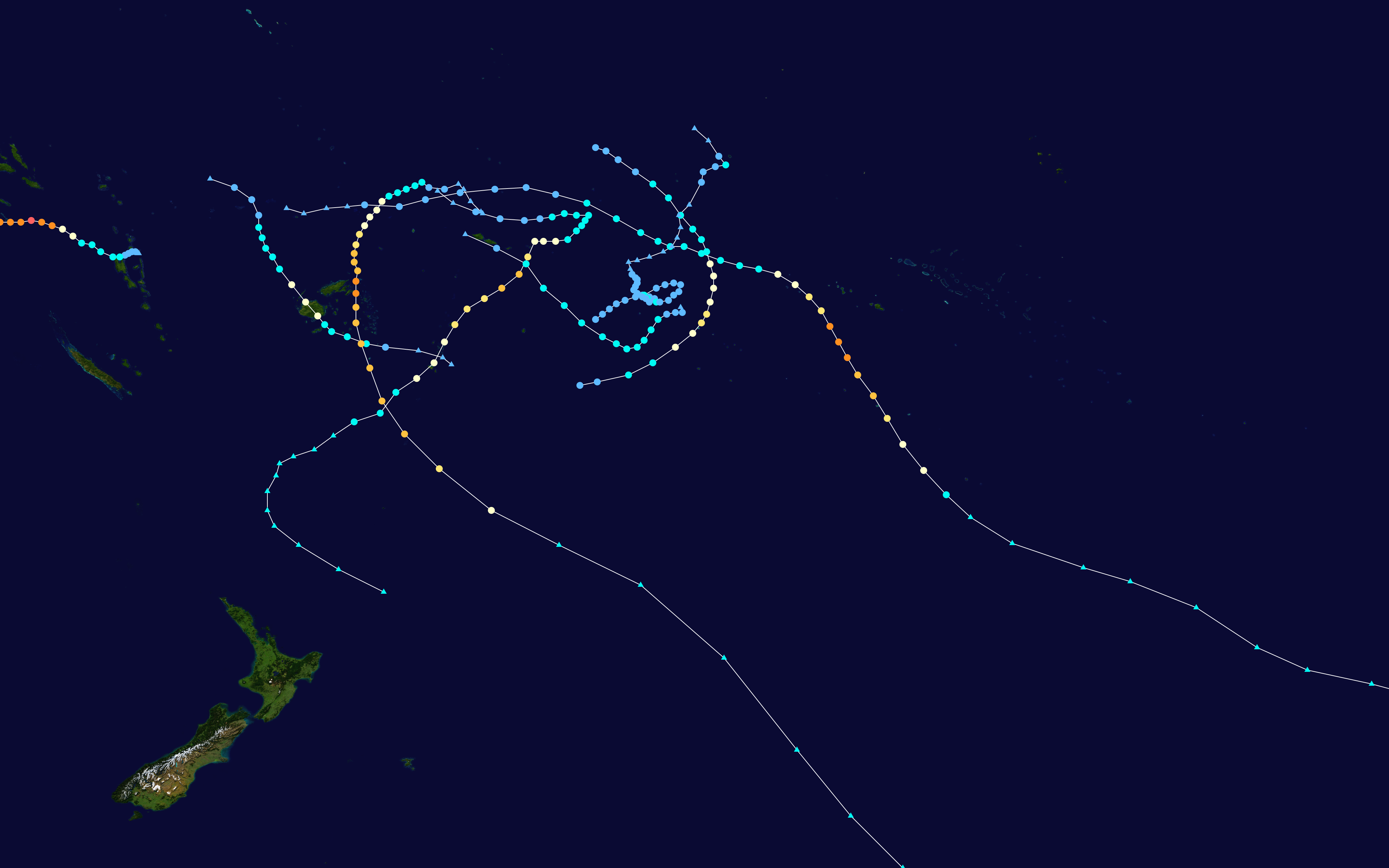 This map shows the tracks of all tropical cyclones in the 2009-10 South Pacific cyclone season. The points show the location of each storm at 6-hour intervals. The colour represents the storm's maximum sustained wind speeds as classified in the Saffir-Simpson Hurricane Scale (see below), and the shape of the data points represent the type of the storm. Saffir–Simpson scale Tropical depression≤38 mph≤62 km/h Category 3111–129 mph178–208 km/h Tropical storm39–73 mph63–118 km/h Category 4130–156 mph209–251 km/h Category 174–95 mph119–153 km/h Category 5≥157 mph≥252 km/h Category 296–110 mph154–177 km/h Unknown Storm type Tropical cyclone Subtropical cyclone Extratropical cyclone / Remnant low / Tropical disturbance / Monsoon depression